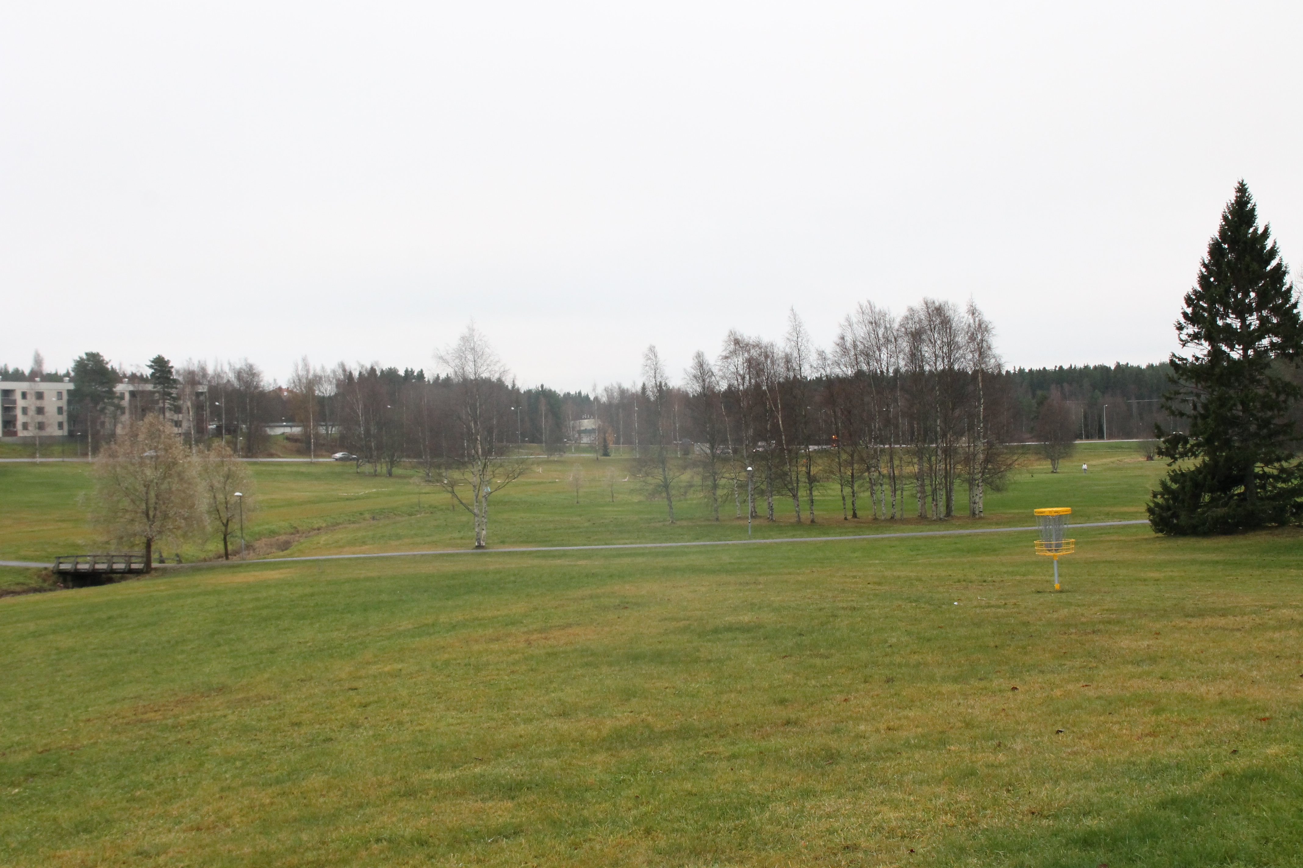 Mariehem meadows in Umeå, Sweden.